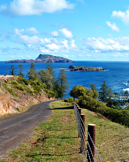 Philip Island, Norfolk Island.